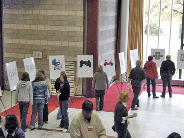 The Ten Commandments Exhibition by Sascha Dörger